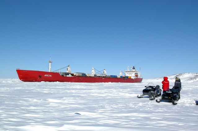 MV Arctic at Voisey's Bay, Labrador IMO Number: 7517507 MMSI Number: 316056000 Callsign: VCLM Length: 221 m Beam: 23 m